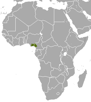 Northern Needle-clawed Bushbaby (Euoticus pallidus) range